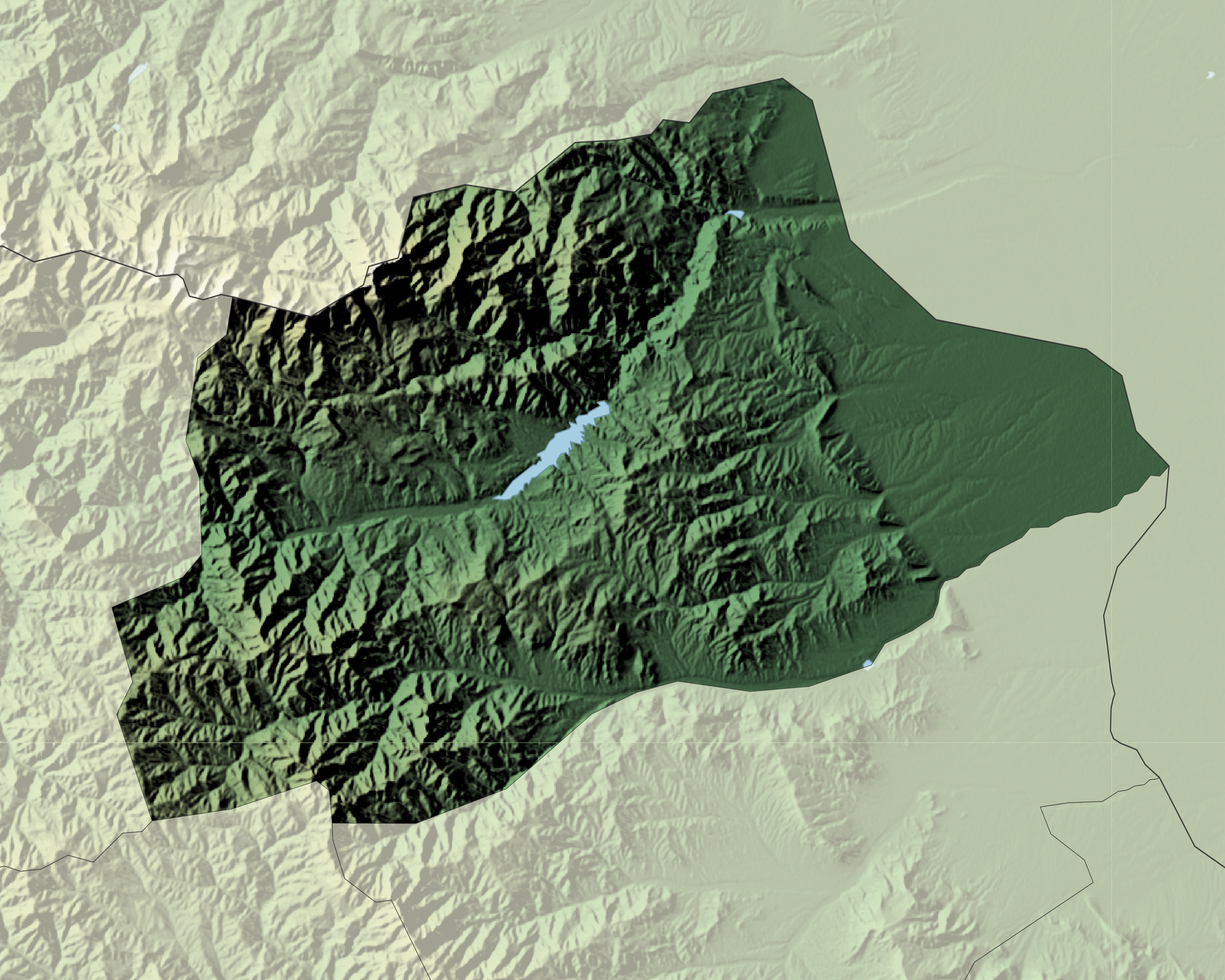 Hillshaded map of Martakert region of Artsakh Republic